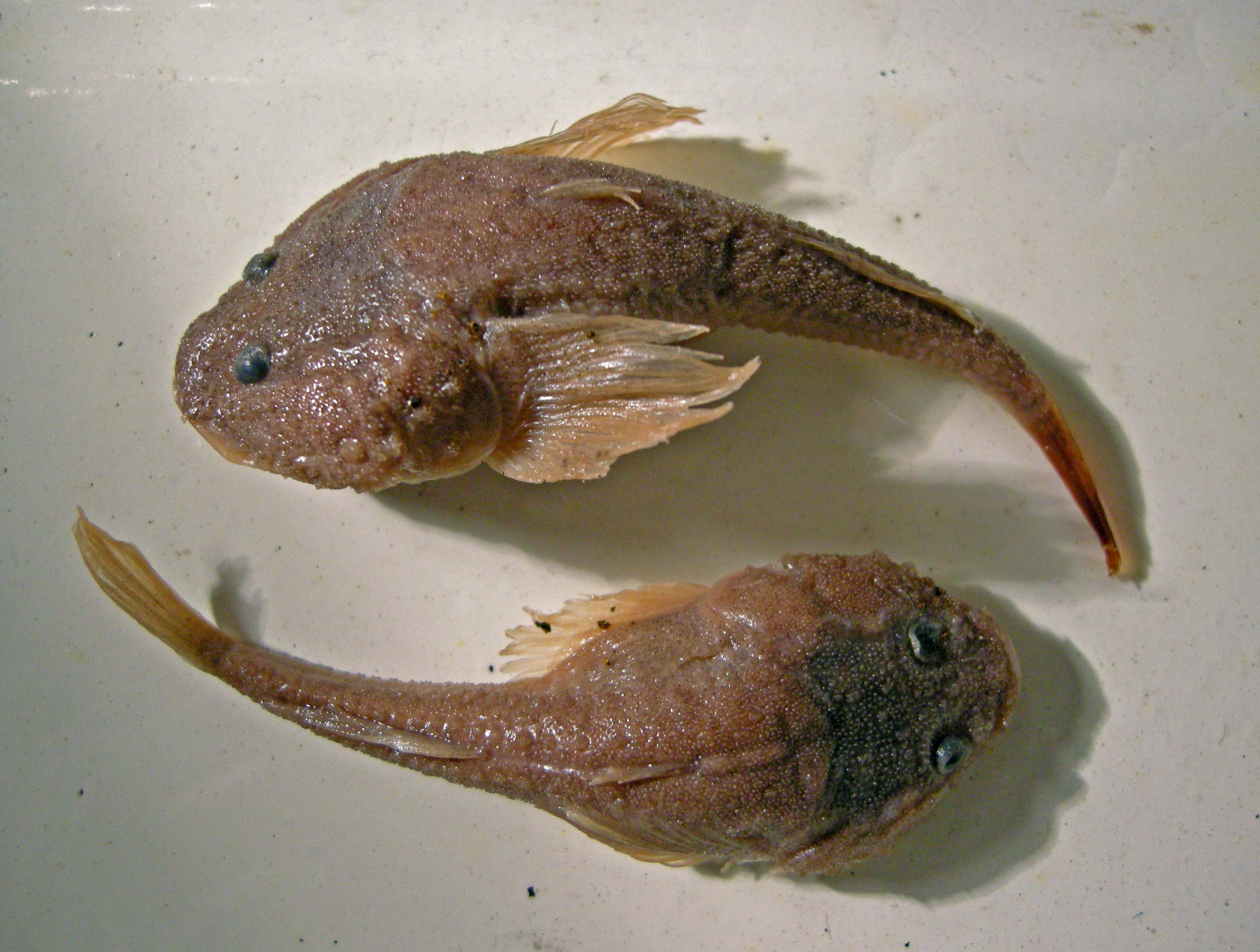 Caspian tadpole goby (Benthophilus macrocephalus), Caspian Sea. Specimens from the personal collection of Vasily Boldyrev, Volgograd Division of the State Institute of Lake and River Fisheries, Russia.